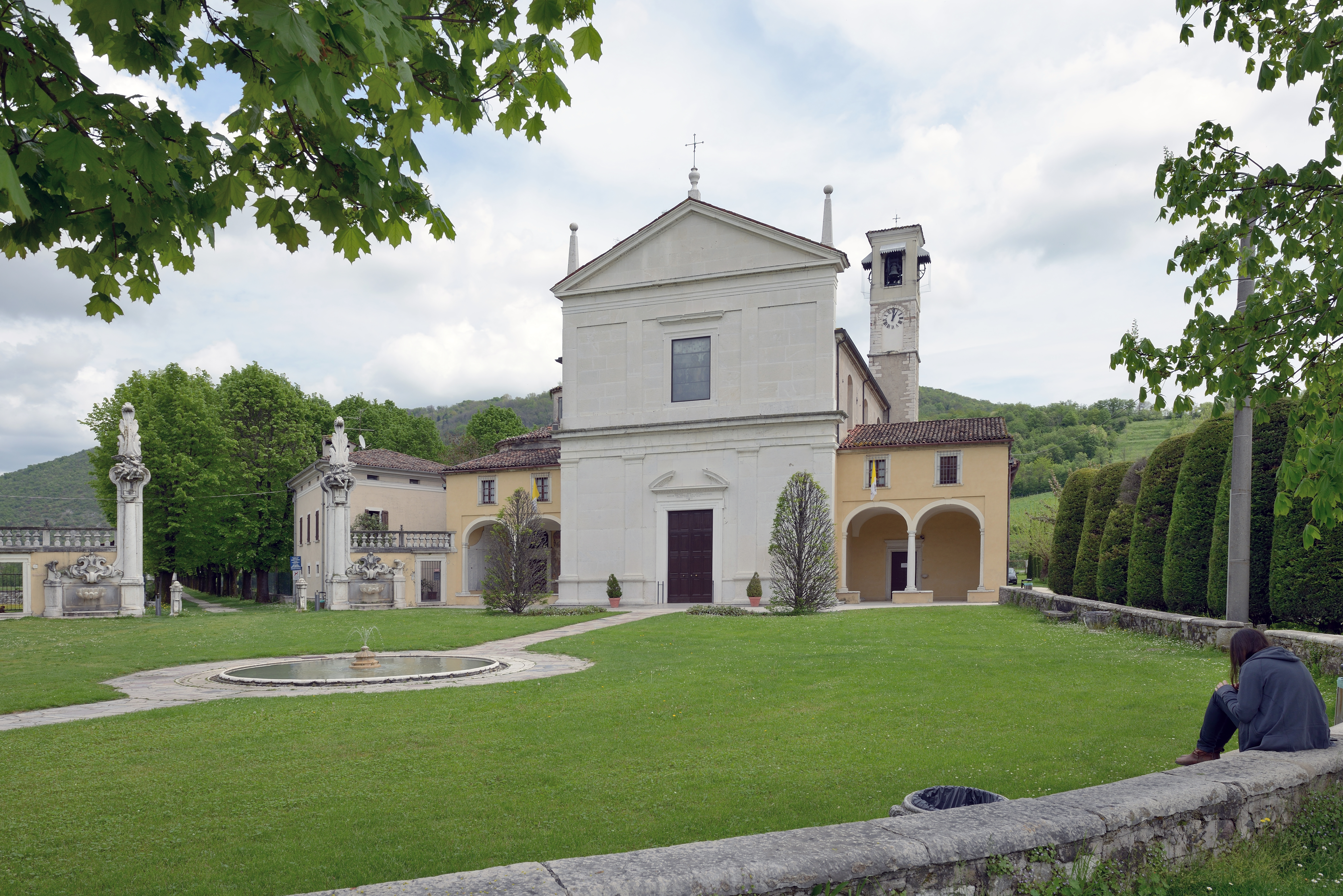 The sanctuary of Our Lady of Valverde in Rezzato.